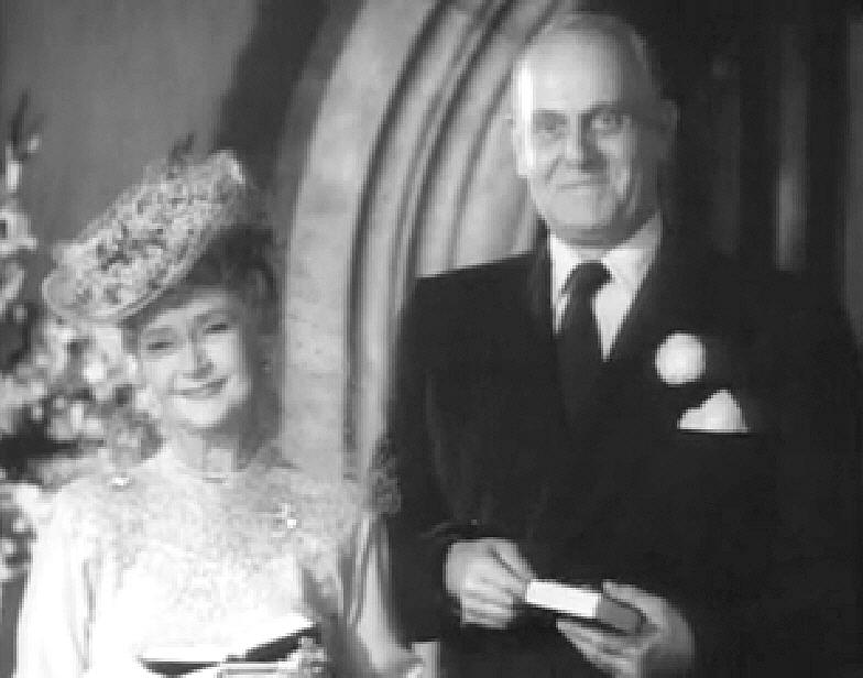 Moroni Olsen & Billie Burke in Father's Little Dividend (cropped screenshot)